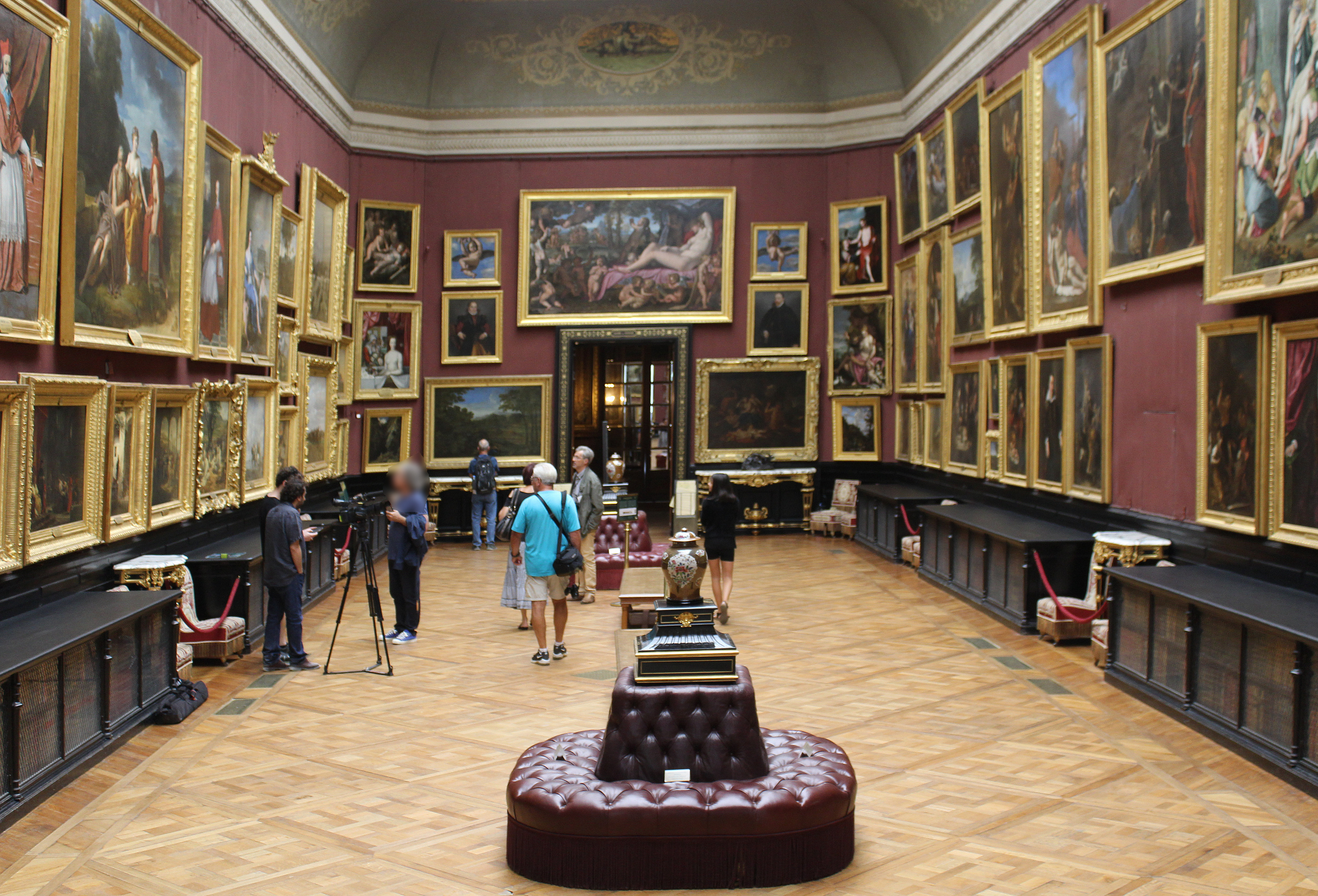 Château de Chantilly, the gallery of paintings